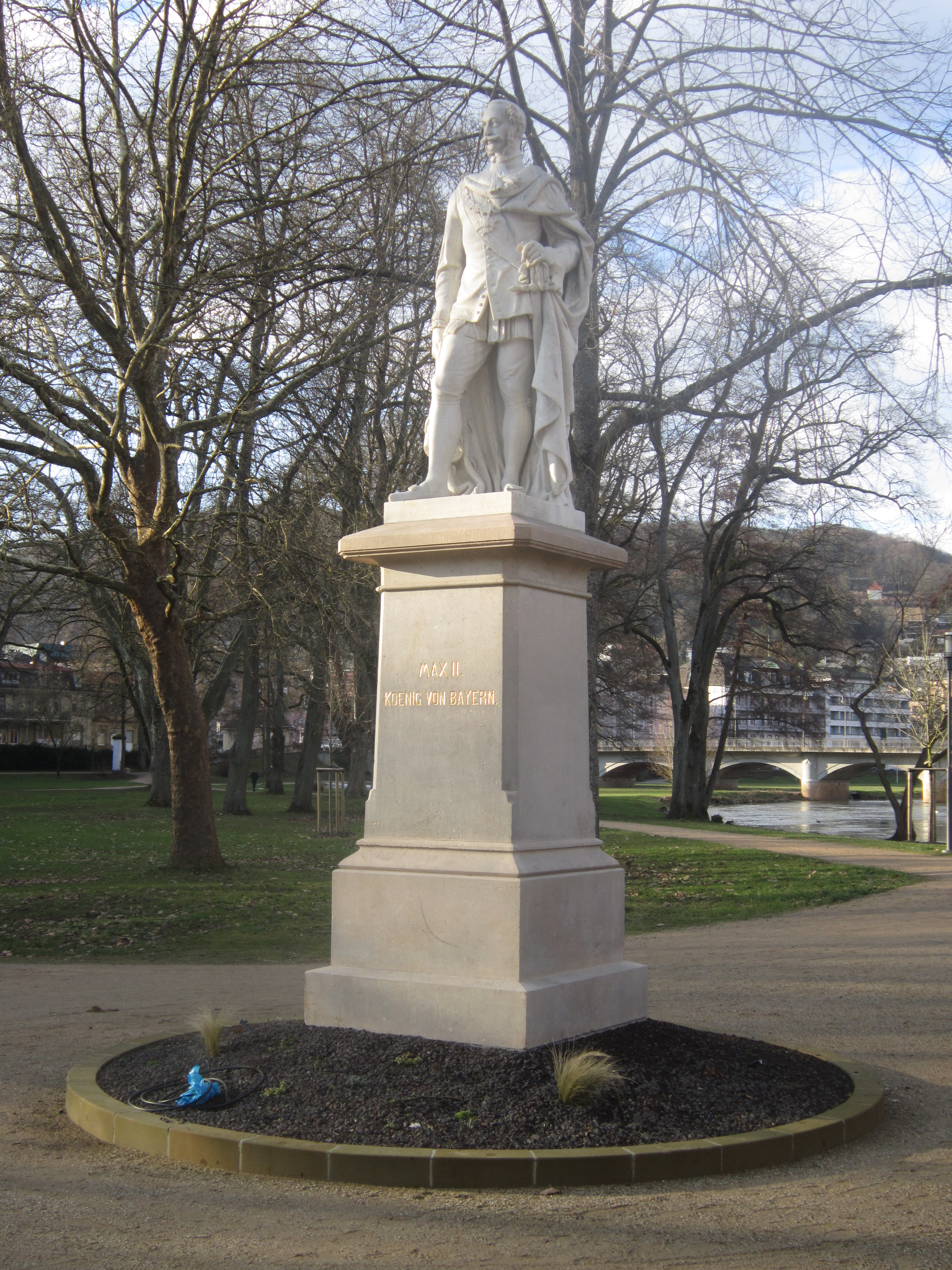 Memorial for Bavarian King Maximilian II Joseph in the "Luitpoldpark" in the German spa town of Bad Kissingen in Lower Franconia (Bavaria).